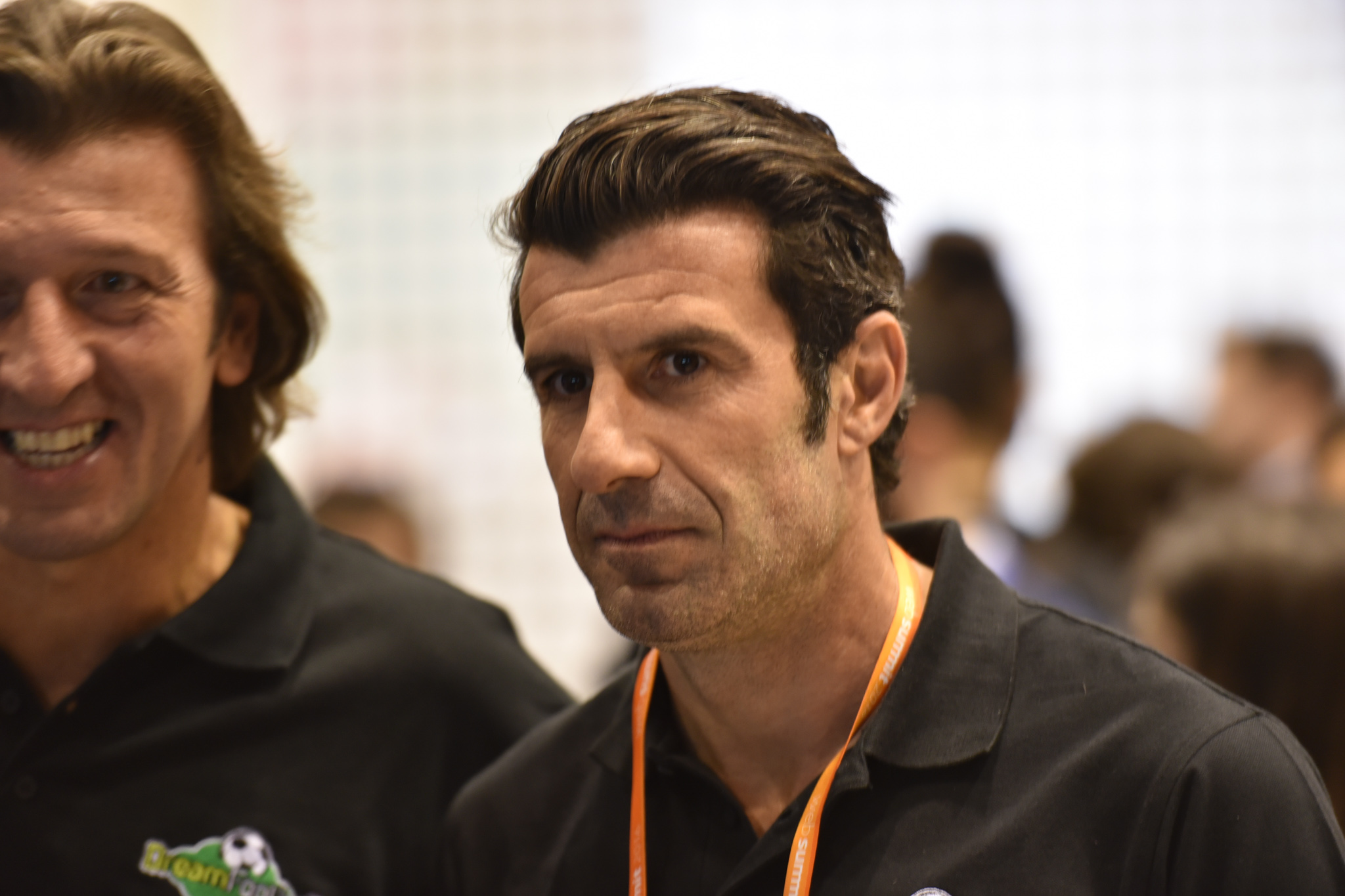 ws (2 of 26)